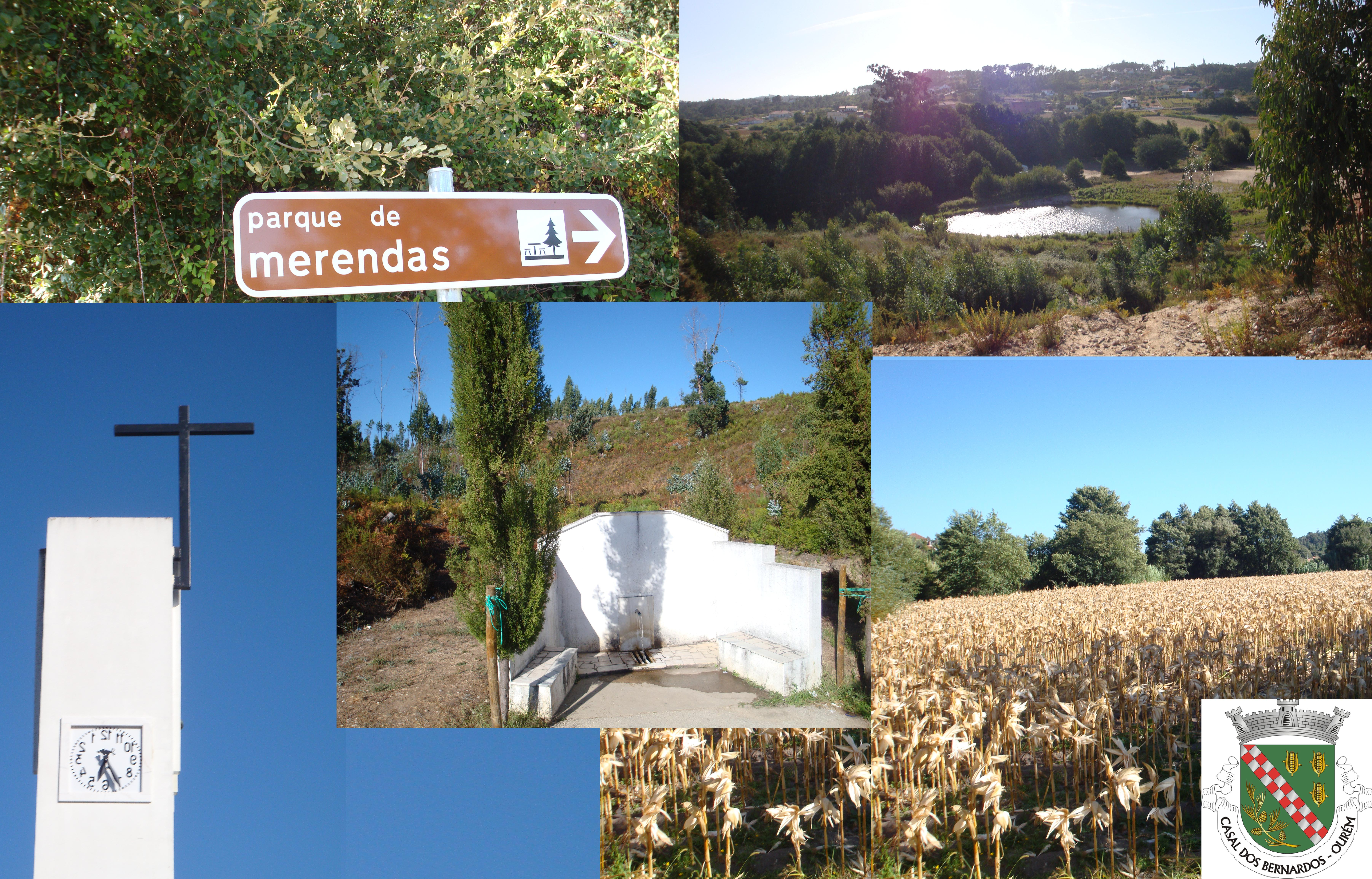 school